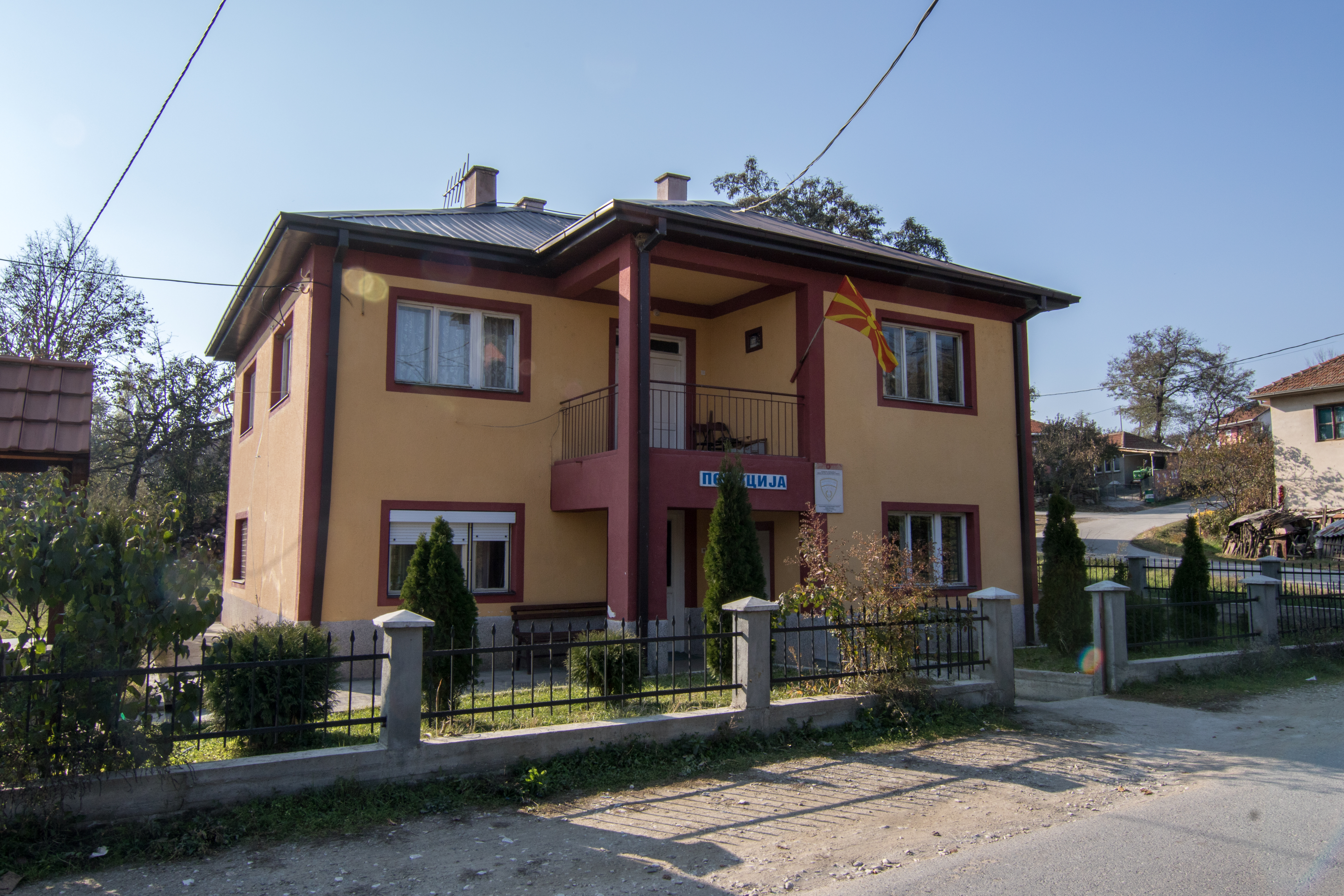 View of the police building in the village Rankovce